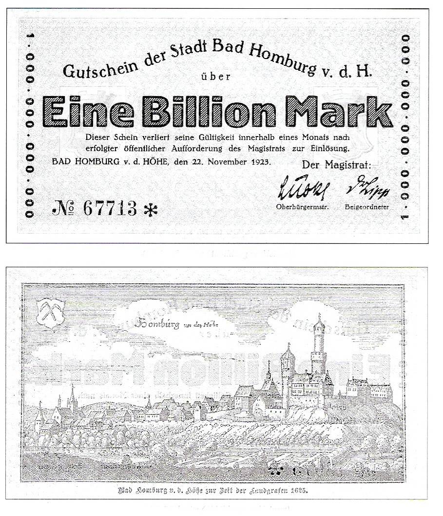 Banknote 1 Billion Mark emergency money, issued by the city of Bad Homburg on 22 November 1923